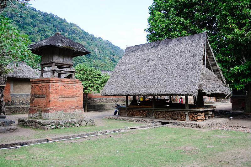 Aga village, Tenganan village nr Candidasa, Bali Location: Bali